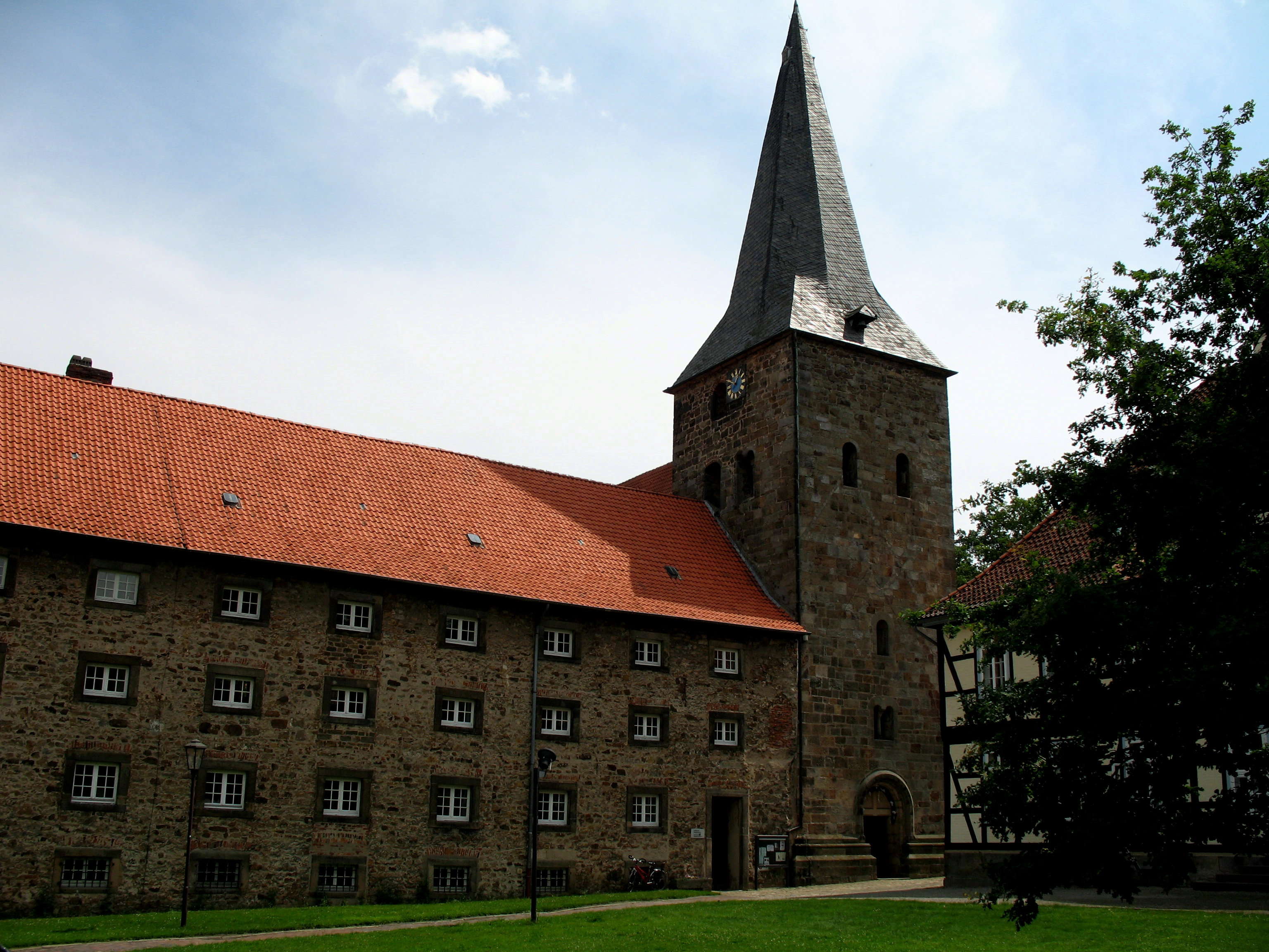 Church and convent in Wennigsen, Lower Saxony, Germany